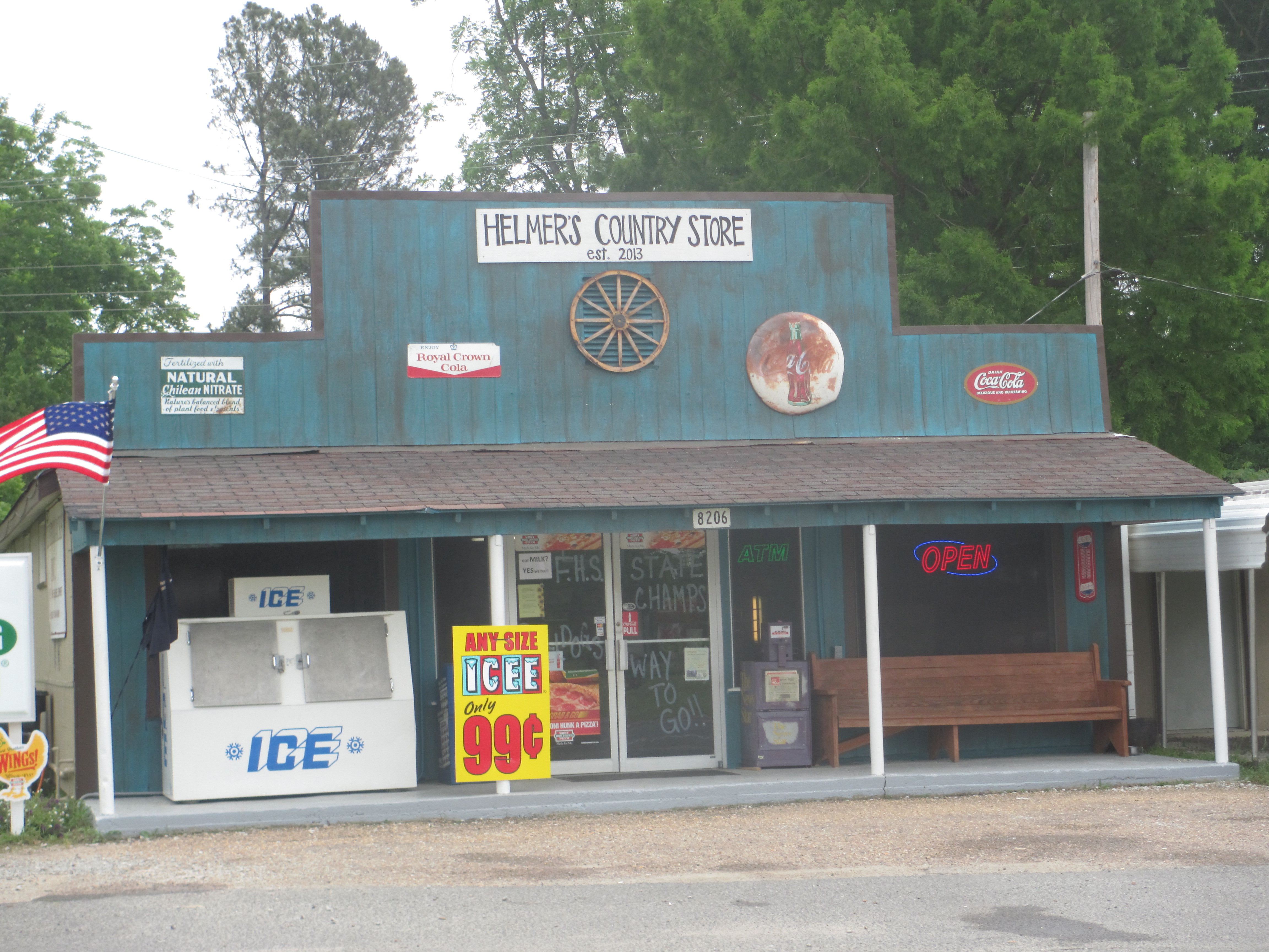 I took photo with Canon camera of Helmer's Country Store (established in an old building in 2013) in Forest, LA.